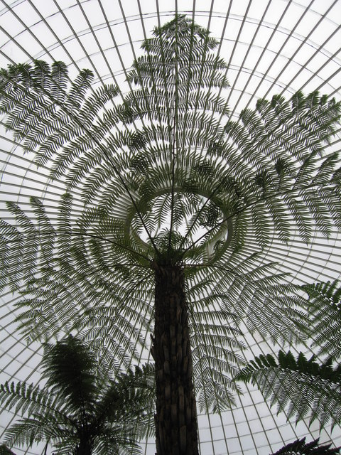 Kibble Palace Tree Fern